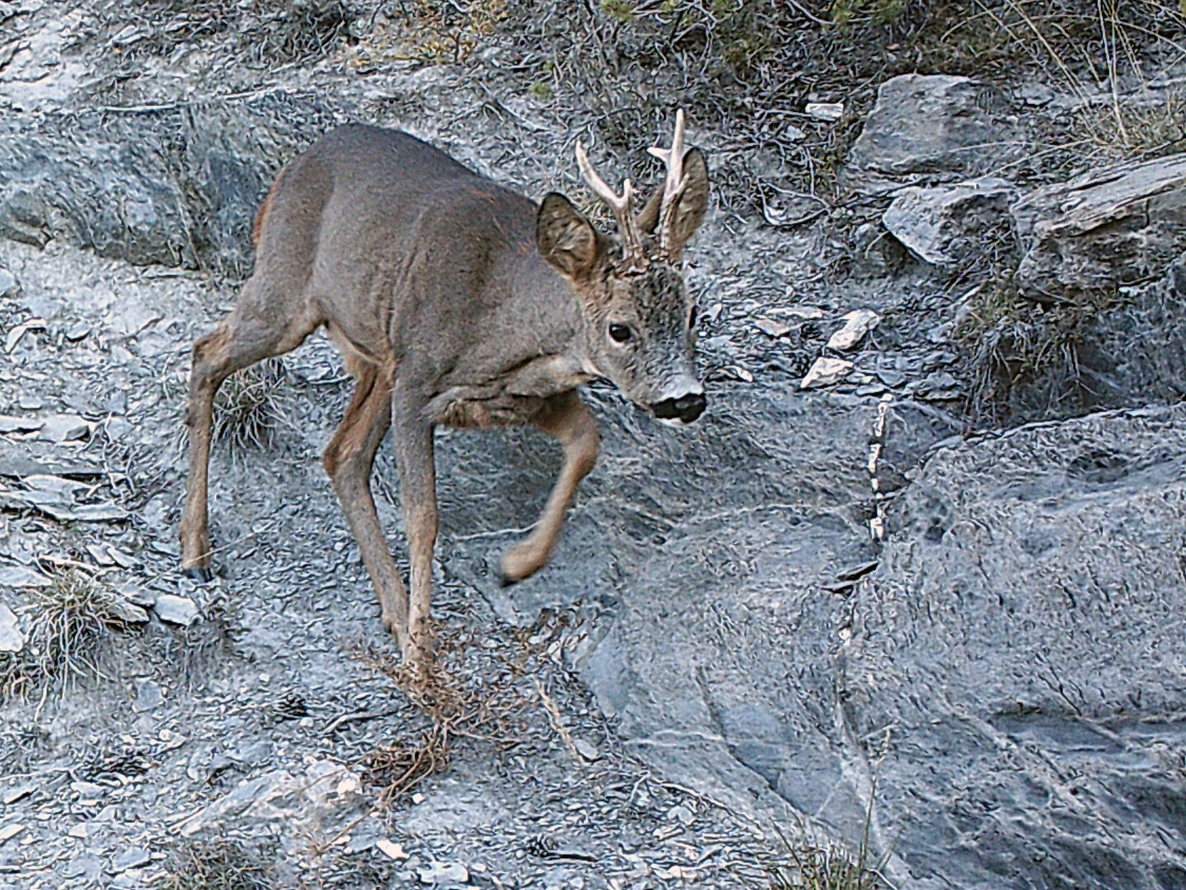 Roe Deer automatically photographed by a presence detection camera